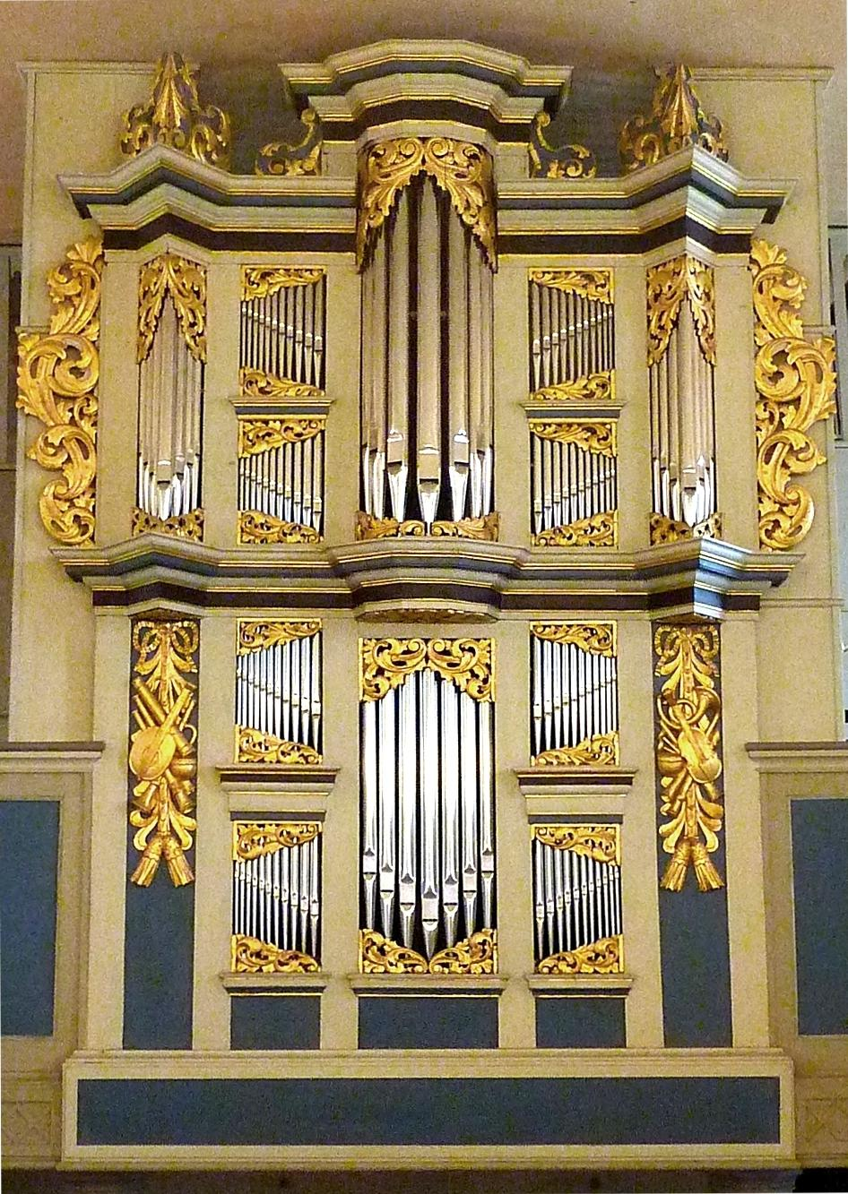 Organ in Blankenhagen